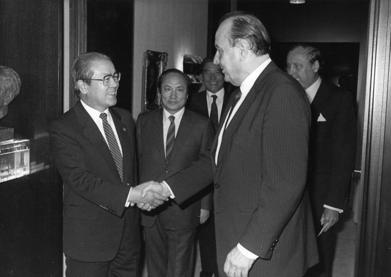 The Federal Minister for Foreign Affairs, Hans-Dietrich Genscher met with his counterpart from the Republic of Korea, Lee Wong-kyung, for talks on bilateral and international issues.